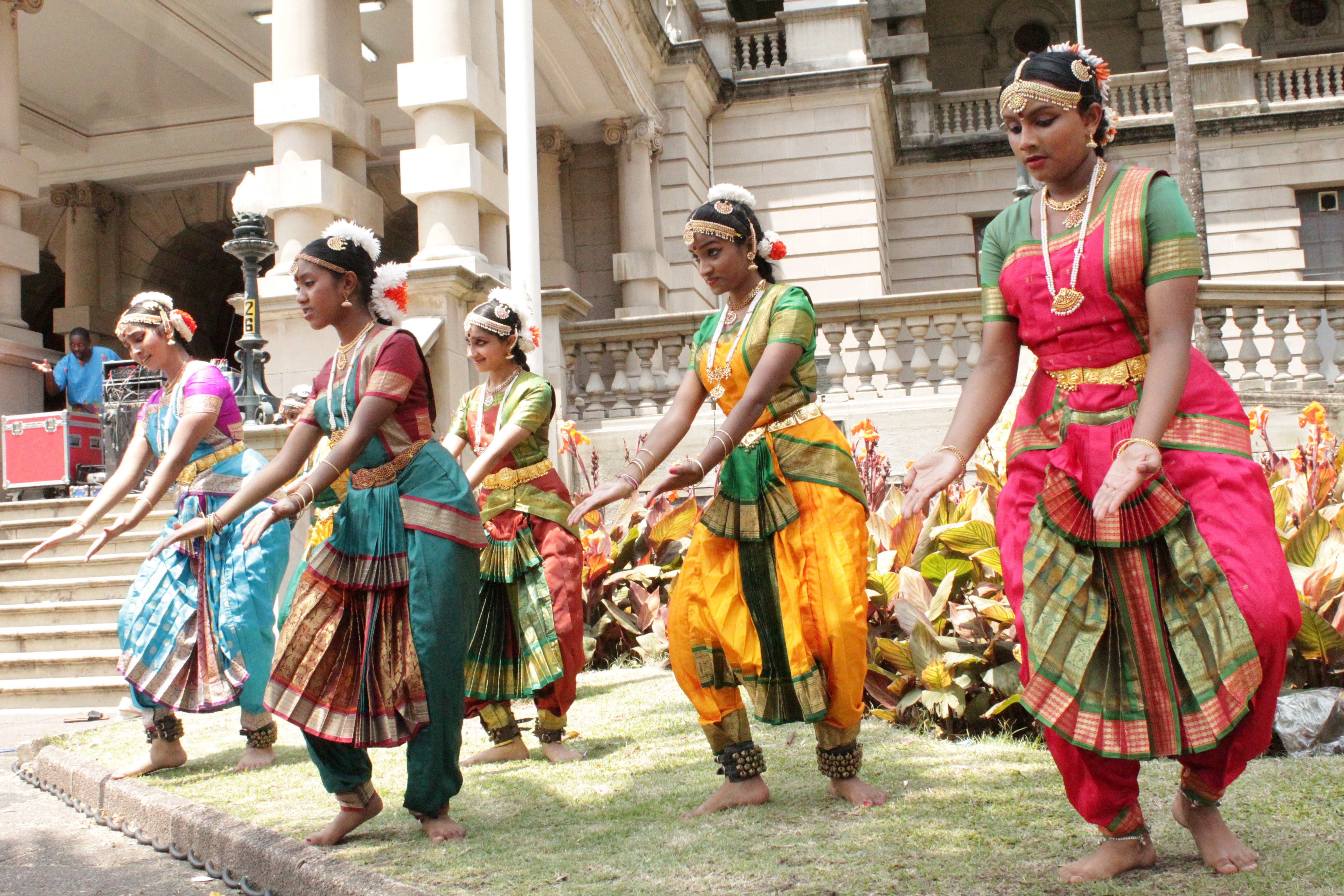 The Traditional Zulu Dancers in Miss Indoni 2018 Parade in Durban's busiest Street, Dr Pixley ka Seme (Old West) Street. Miss Indoni is an annual event that usually occurs during South Africa's Heritage Month which is in September, 24 September being Heritage Day, but last year due to the passing away of the Zulu Prince on this month the event had to take place on the 15 of December 2018, and the Parade happens the day before Miss Indoni to encourage people to come to the event. This is an image with the theme "Play" from: South Africa